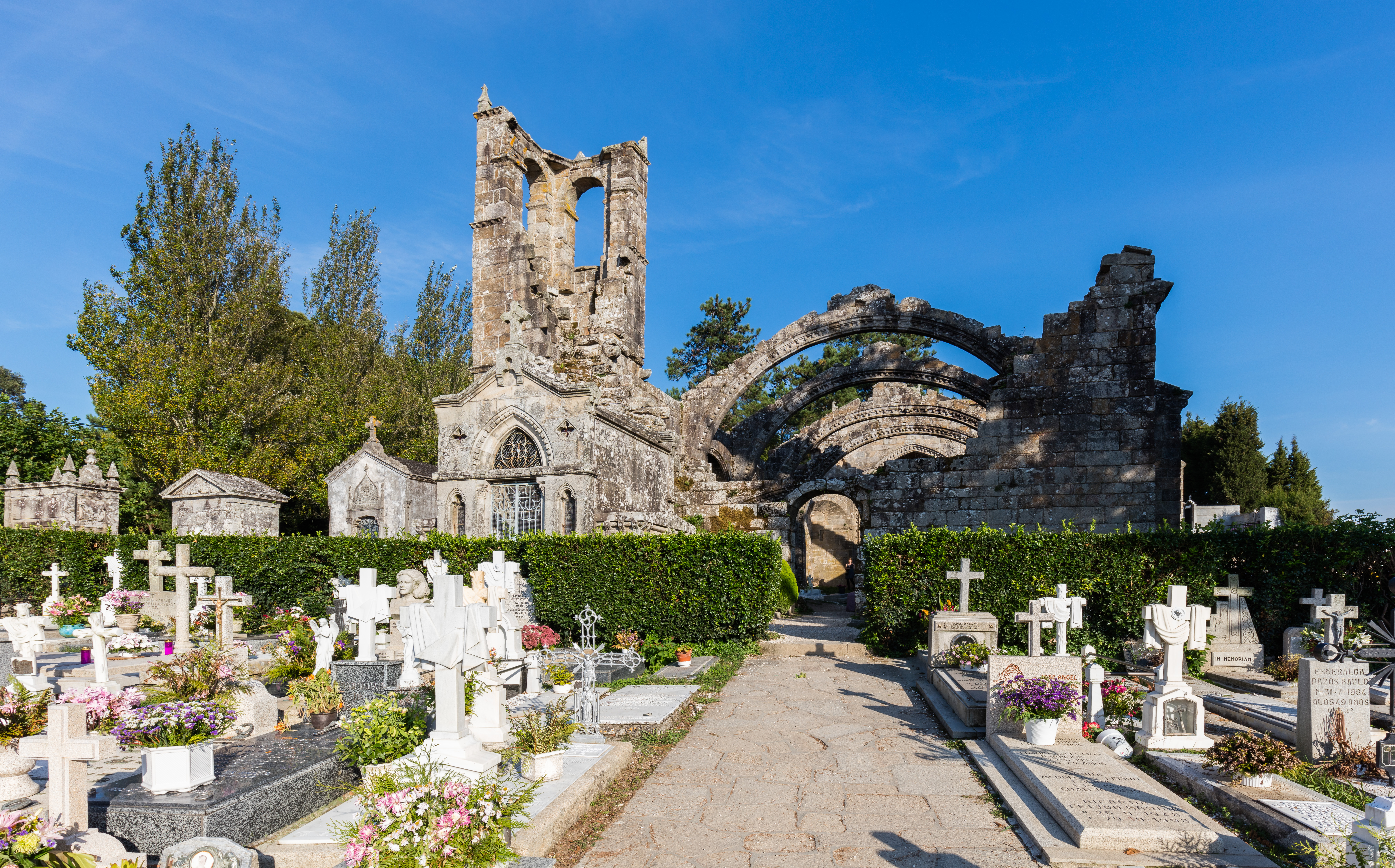 Remains of St Mariña Dozo, Cambados, Pontevedra, Spain